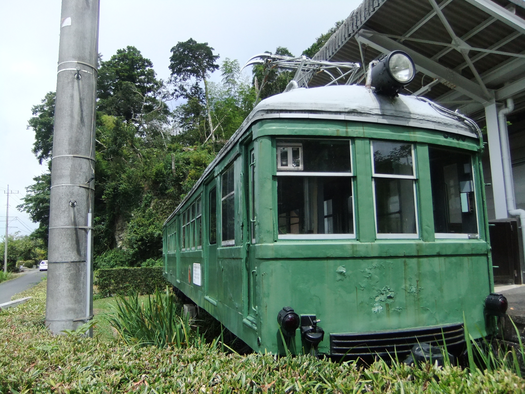 Former Tokyu DeHa 3455 EMU car preserved in Isumi, Chiba Prefecture, Japan